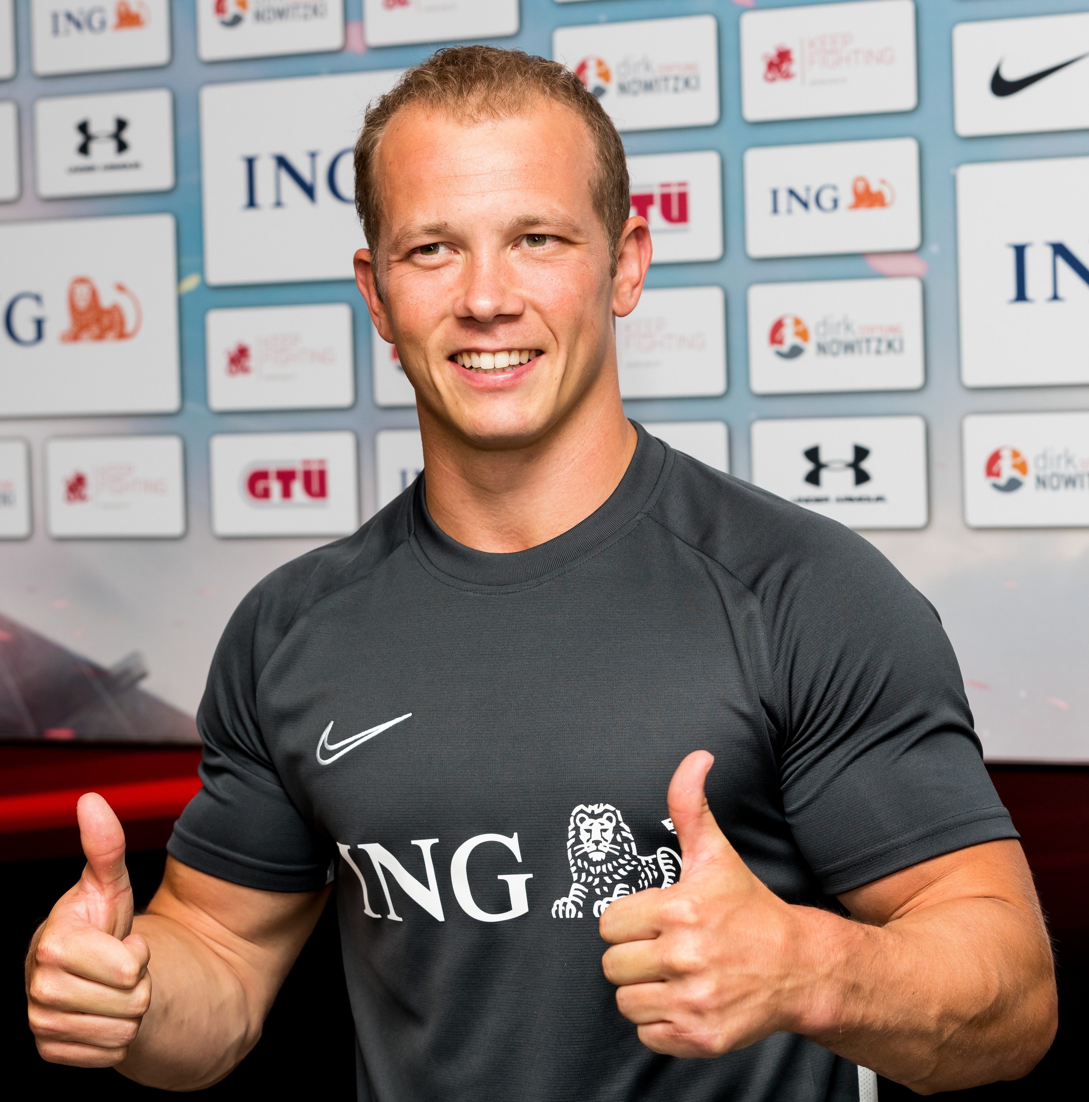 Fabian Hambüchen during Champions for Charity at BayArena, Leverkusen, Nordrhein-Westfalen, Germany on 2019-07-21, Photo: Sven Mandel